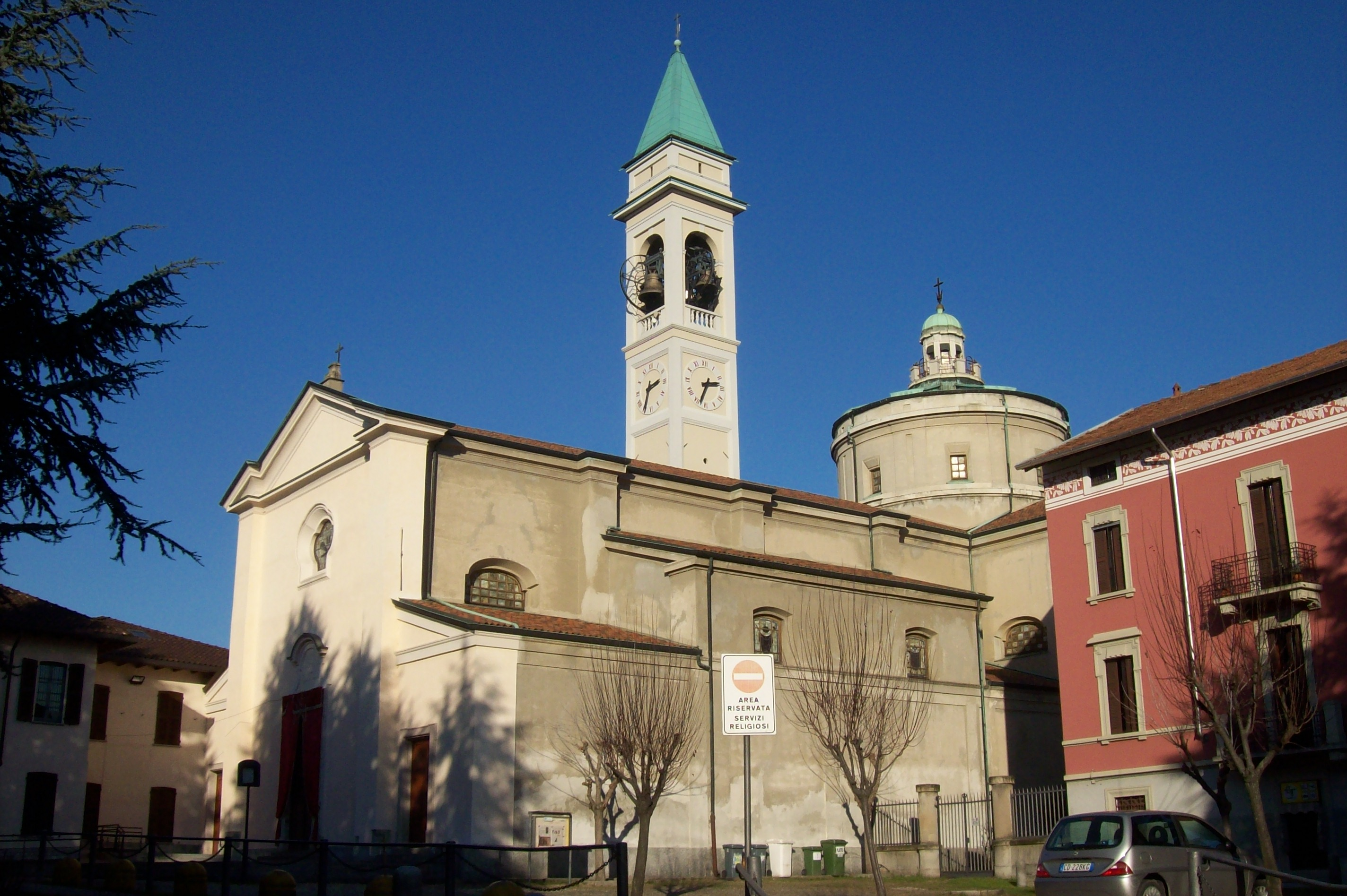 Church of the Saints Gervasius and Protasius in Novate Milanese (province of Milan), Italy